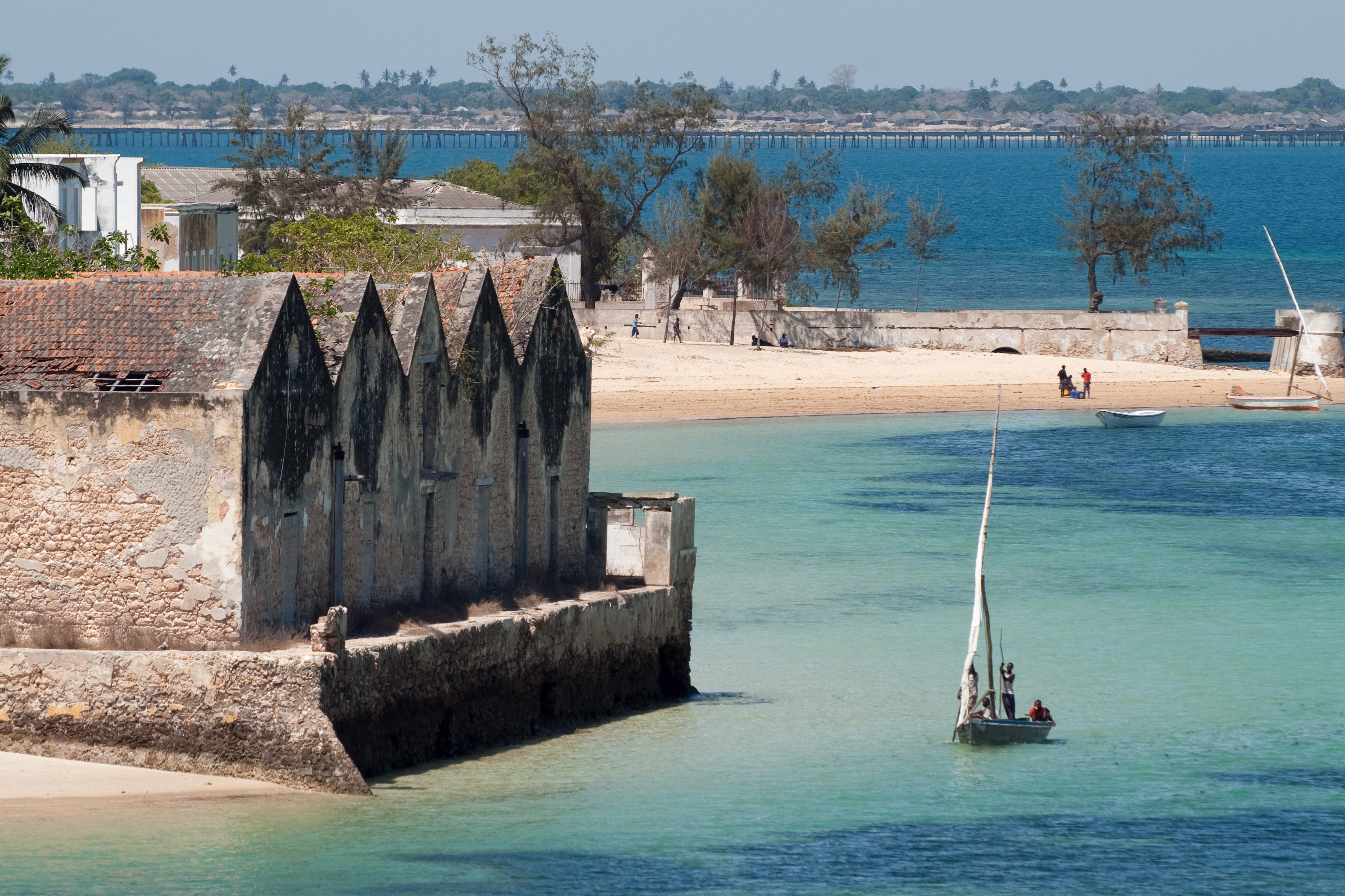 Ilha de Mocambique seen from Fort San Sebastiao, in background the bridge connected to the mainland